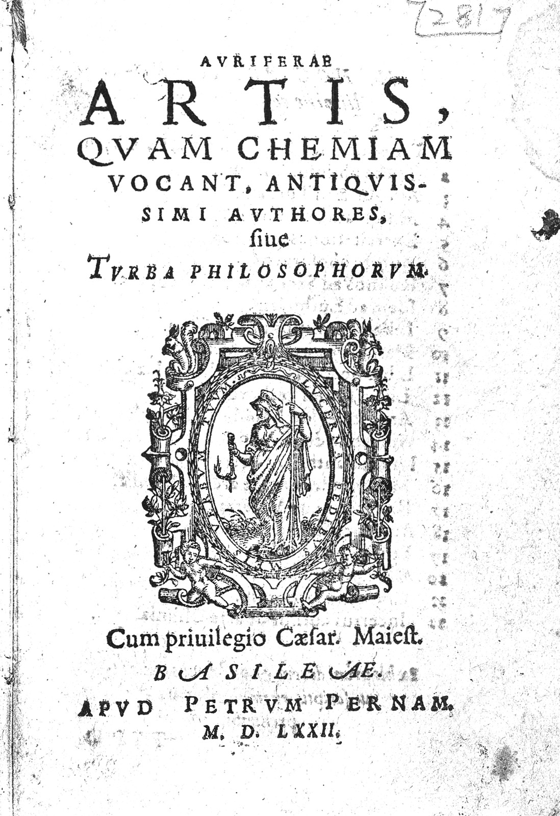 Title page Rare Books Keywords: Alchemy